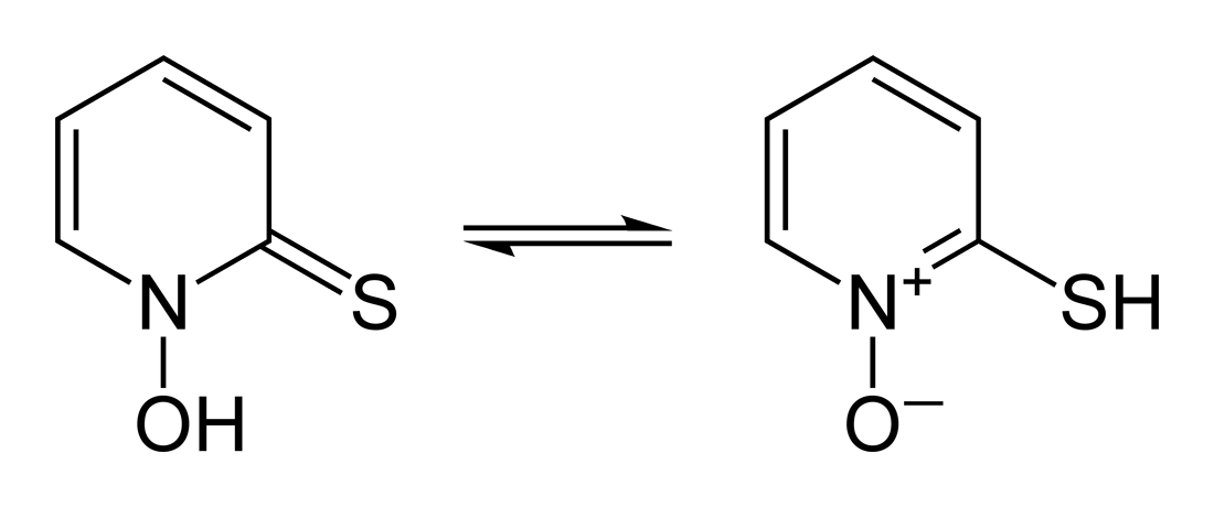 Skeletal formulae of the two tautomeric forms of pyrithione